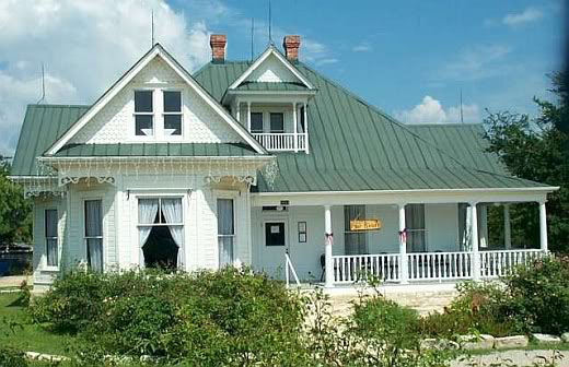 Restaurant which was formerly the house where The Texas Chain Saw Massacre(1974) was filmed. The house was moved to Kingsland from the area near Round Rock, Texas where it was located when the movie was filmed.